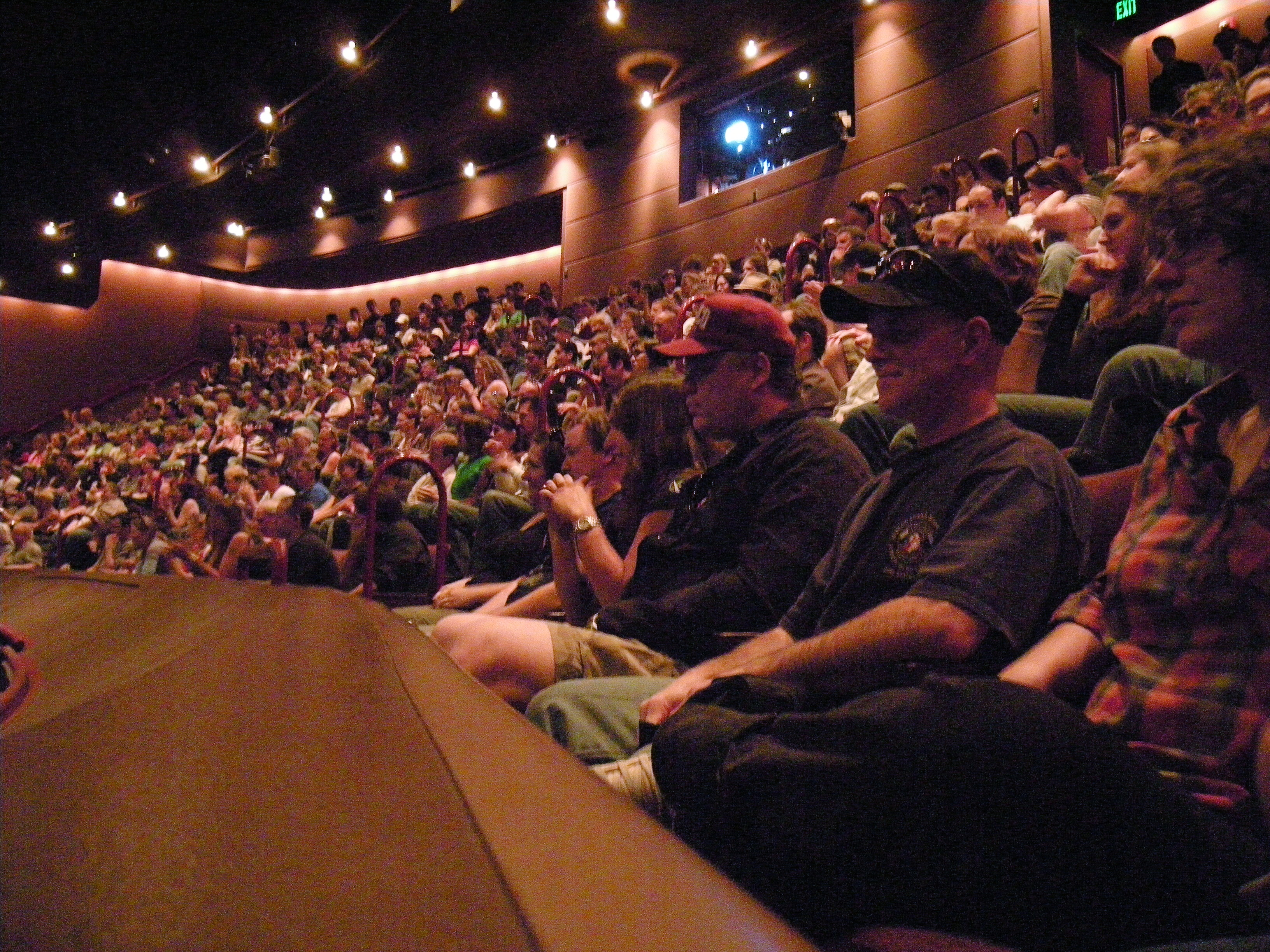 Balcony of the Bagley Wright Theater during Bumbershoot 2008, Seattle Center, Seattle, Washington.